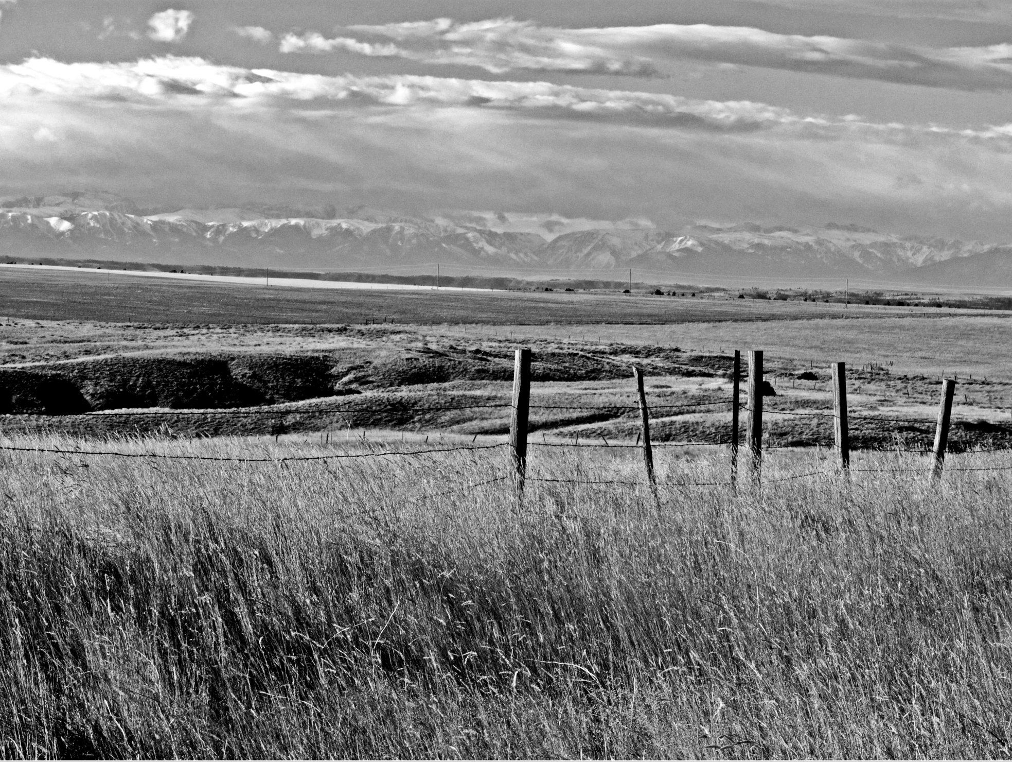 Foehn wall over the Rockies